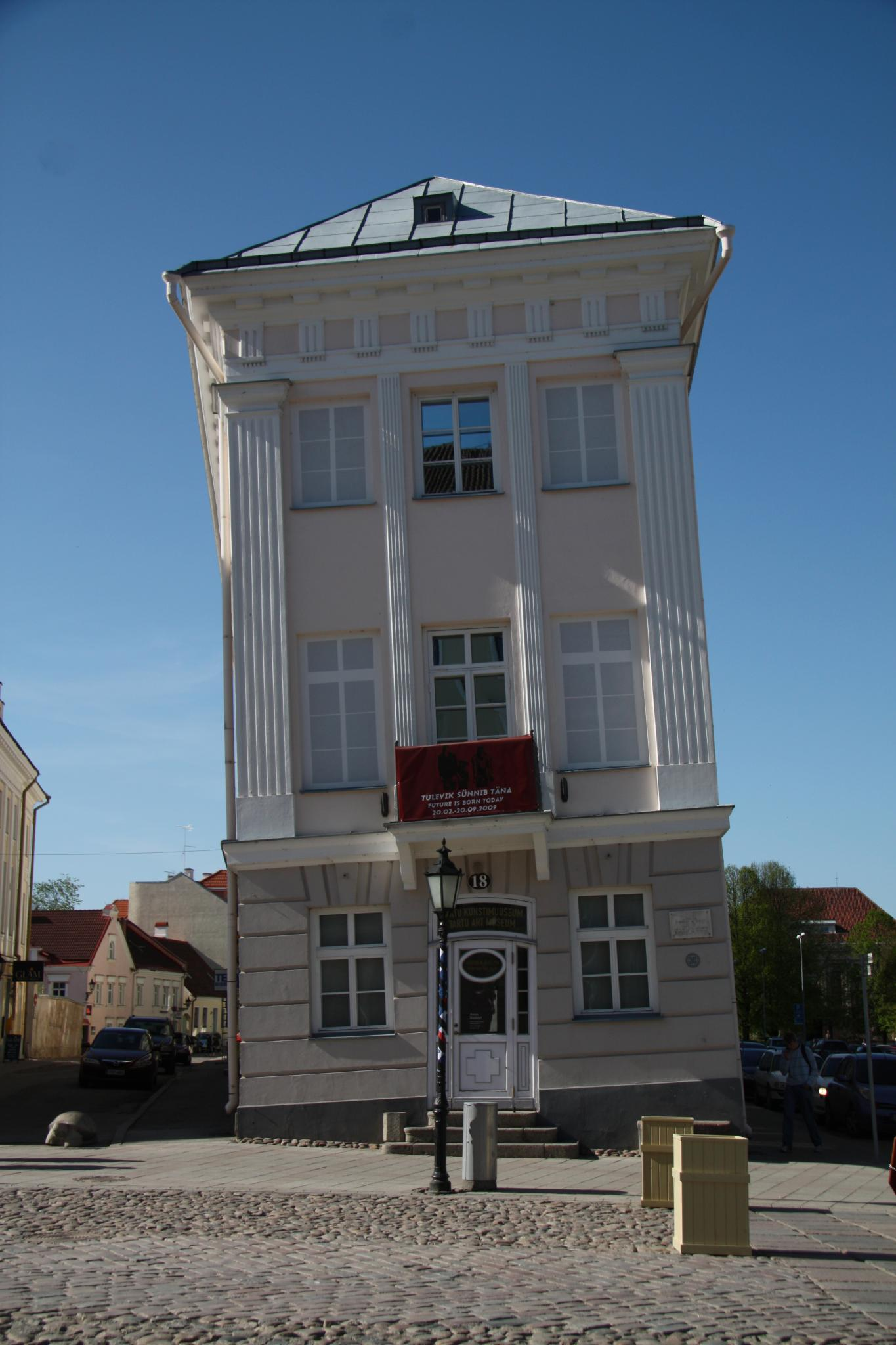 One side of this 18th century house was built on marshy ground, the other on the remains of the city wall.